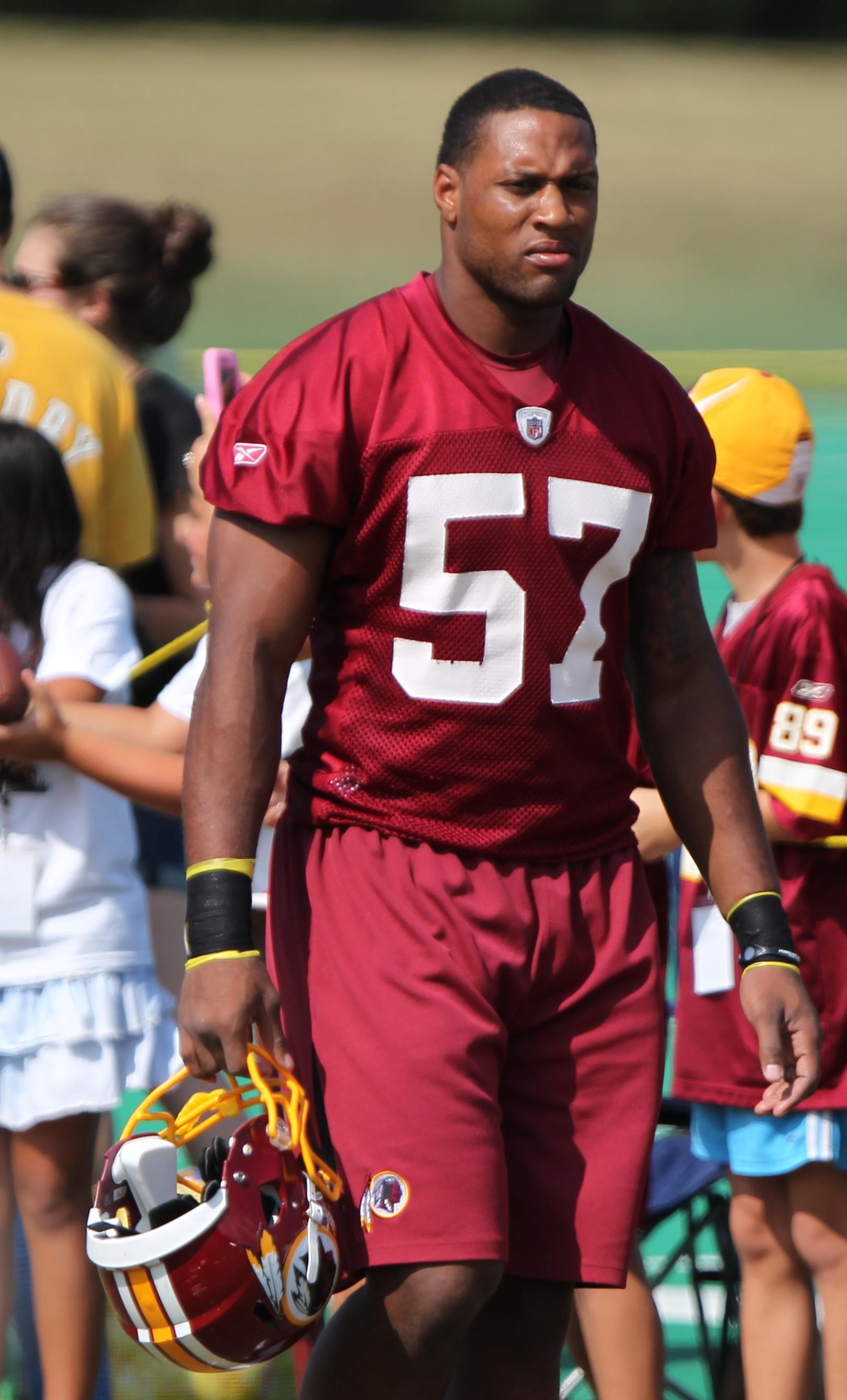 Markus White at Washington Redskins Training Camp August 4, 2011